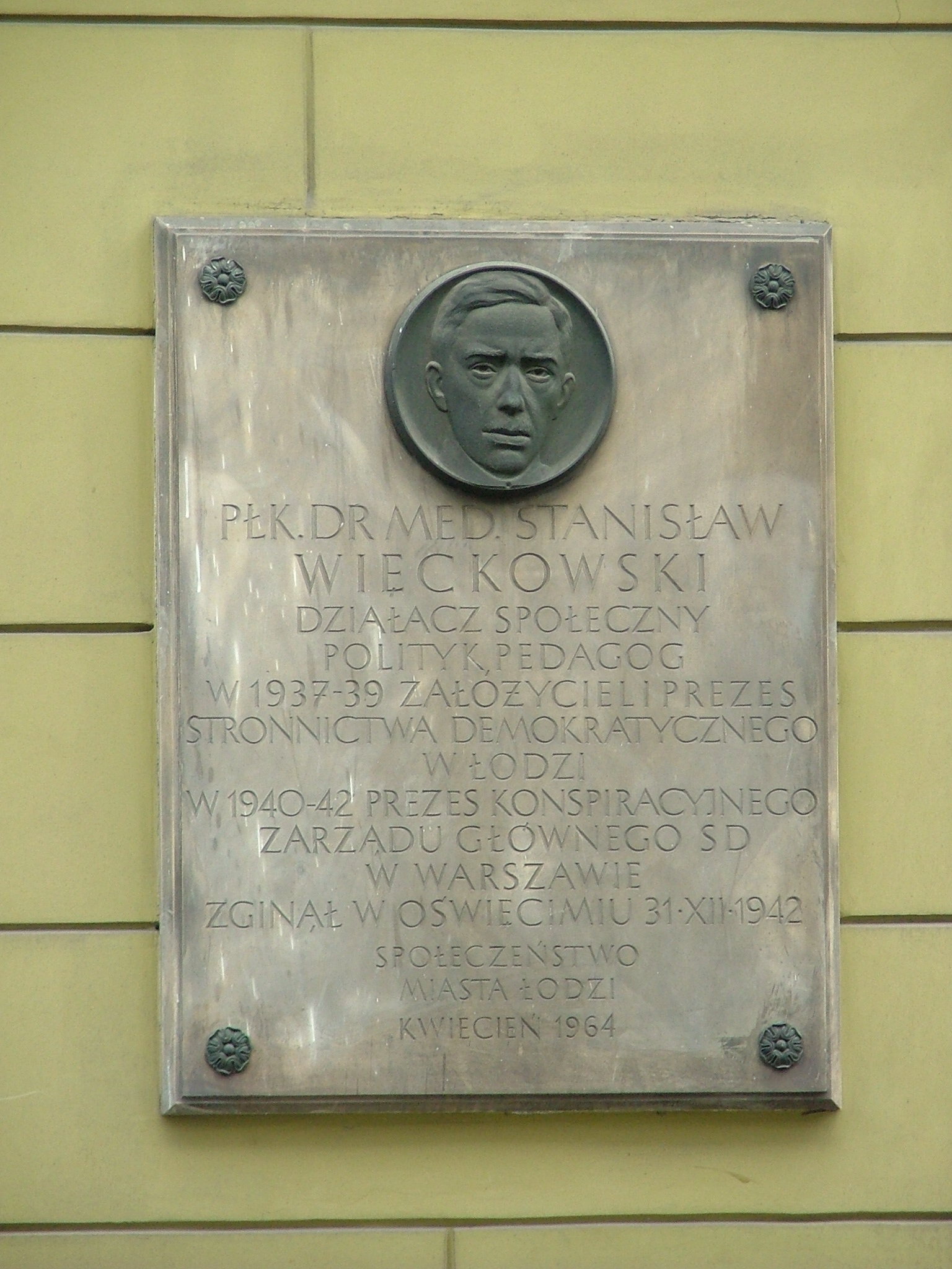 This picture was taken during the photographic wikiworkshop organized by the Association of Wikimedia Poland. All pictures of the workshop you can see in the category wikiwarsztaty 2010. Tablica pamiątkowa "Stanisław Więckowski"